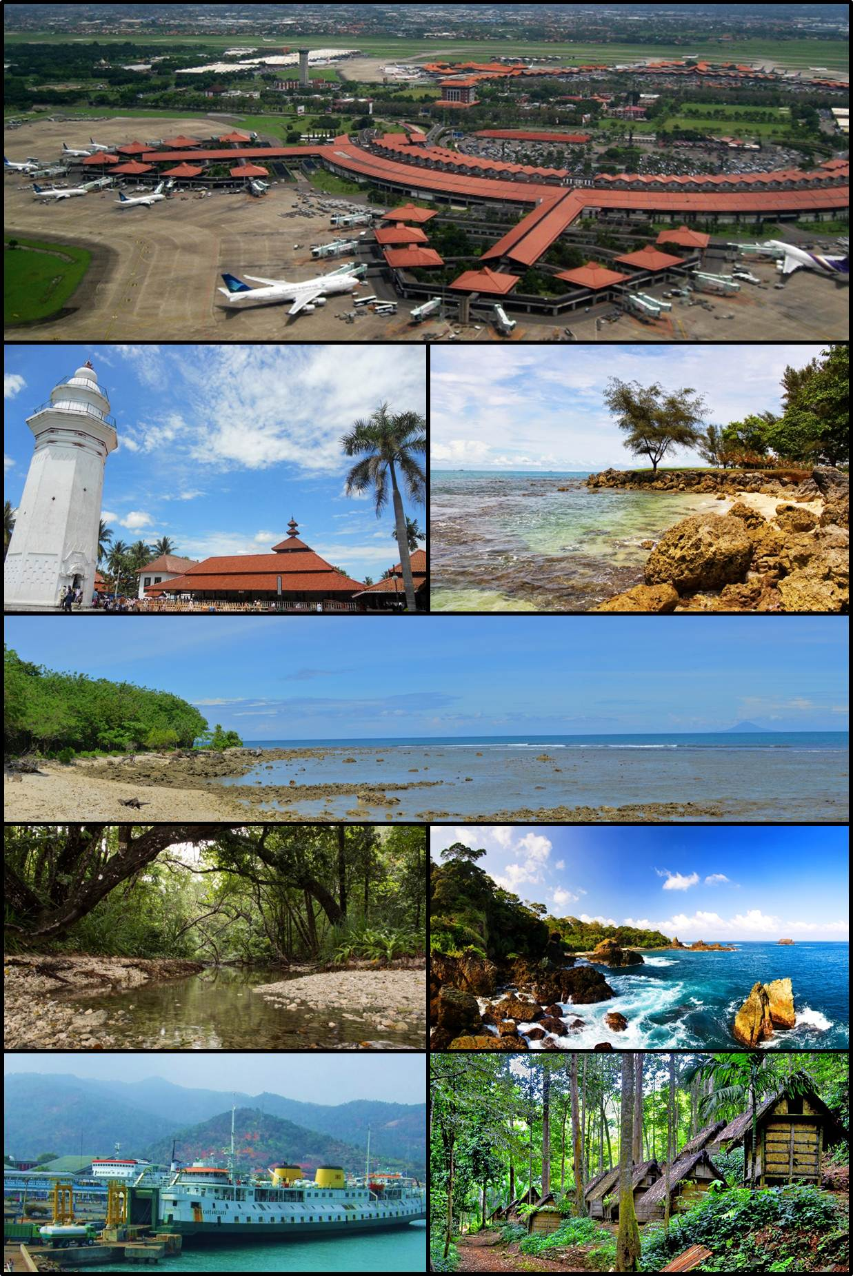 Picture of Jakarta, from top to bottom: Soekarno-Hatta International Airport, Great Mosque of Banten, Carita Beach, Tanjung Lesung, Ujung Kulon National Park, Tourist village of Sawarna, Port of Merak, Tourist village of Baduys.